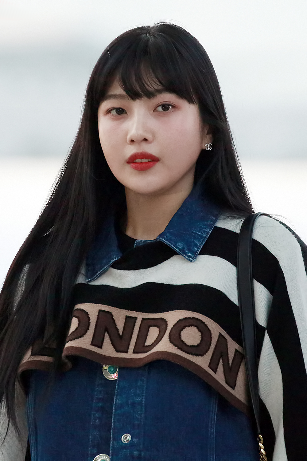 Joy at ICN Airport on January 10, 2020